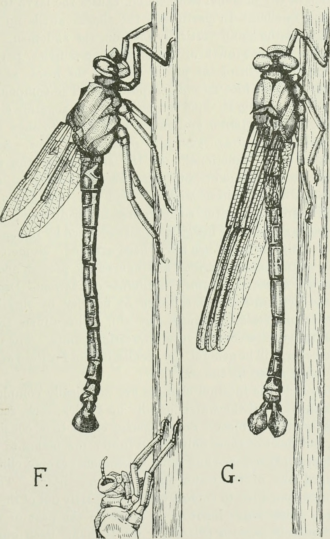 Title: The biology of dragonflies (Odonata or Paraneuroptera) Year: 1917 (1910s) Authors: Tillyard, Robin John, 1881-1937 Subjects: Dragon-flies Publisher: Cambridge (Eng. ) : University Press Text Appearing Before Image: IV) THE LARVA OR NYMPH 95 Metamorphosis (fig. 43). The emergence of the imago fromi the larval skin or exuviae, usually spoken of as the "metamorphosis," is in point of fact only the consummation of an internal metamorphosis which begins Text Appearing After Image: Fig. 43. Metamorphosis of Petalura gigantea Leach, a. 5.42 a.m. b. 5.50 a.m. c. 6 a.m. D. 6.12 a.m. e. 6.18 am. f. 6.30 a.m. g. 6.45. (Natural size.) Original, drawn from sketches and notes in the field.